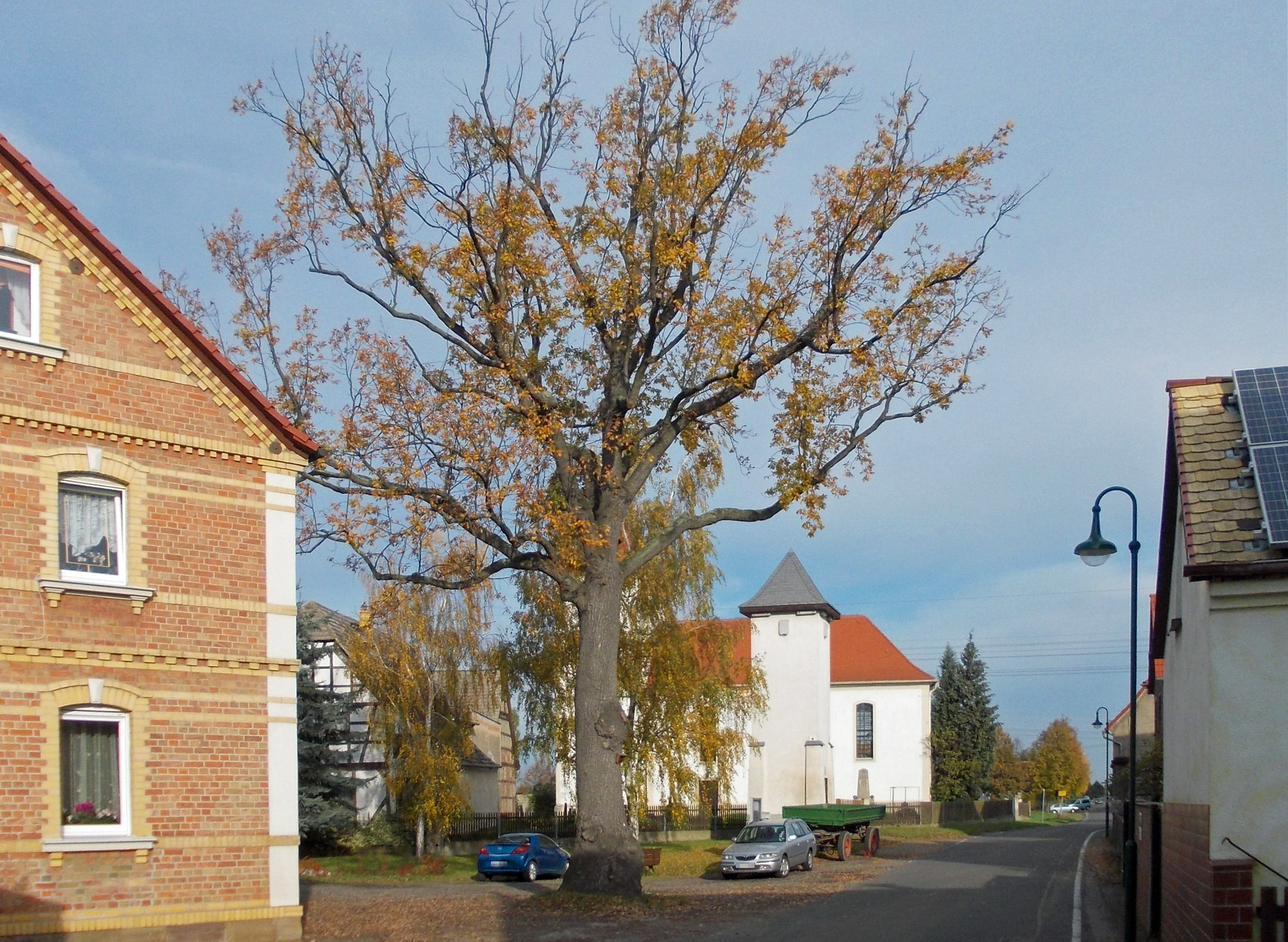 Luther Oak in Tellschütz (Zwenkau, Leipzig district, Saxony)